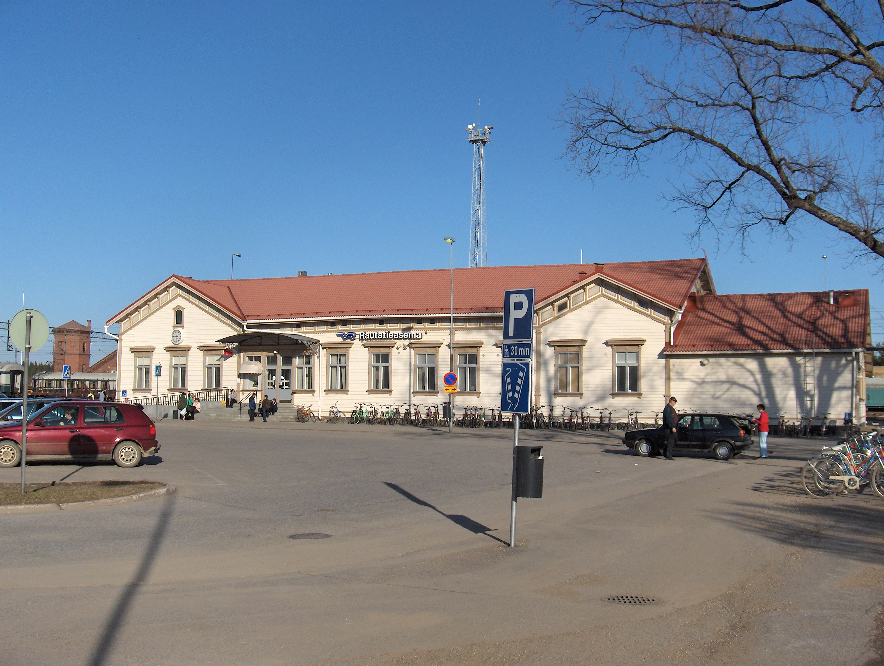 Joensuu railway station, Joensuu, Finland